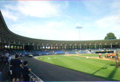 Yale Field, New Haven, Conn., taken Sep 07 2003